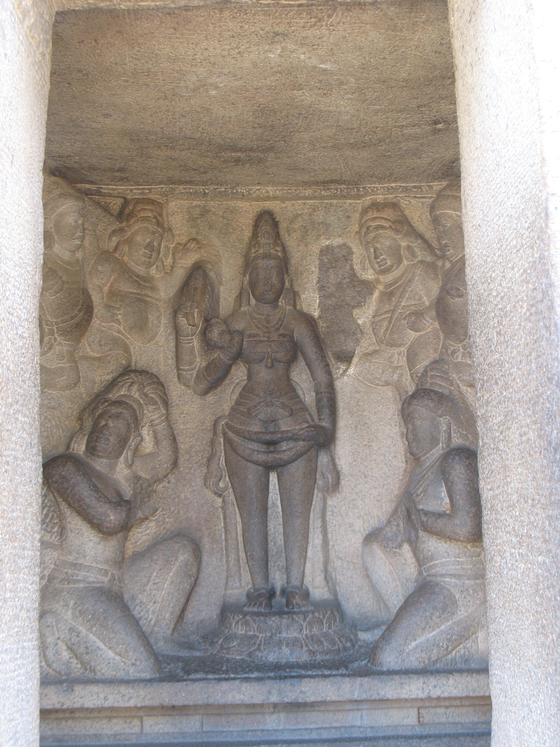 The Draupadi Idol located at the Mahabalipuram Site